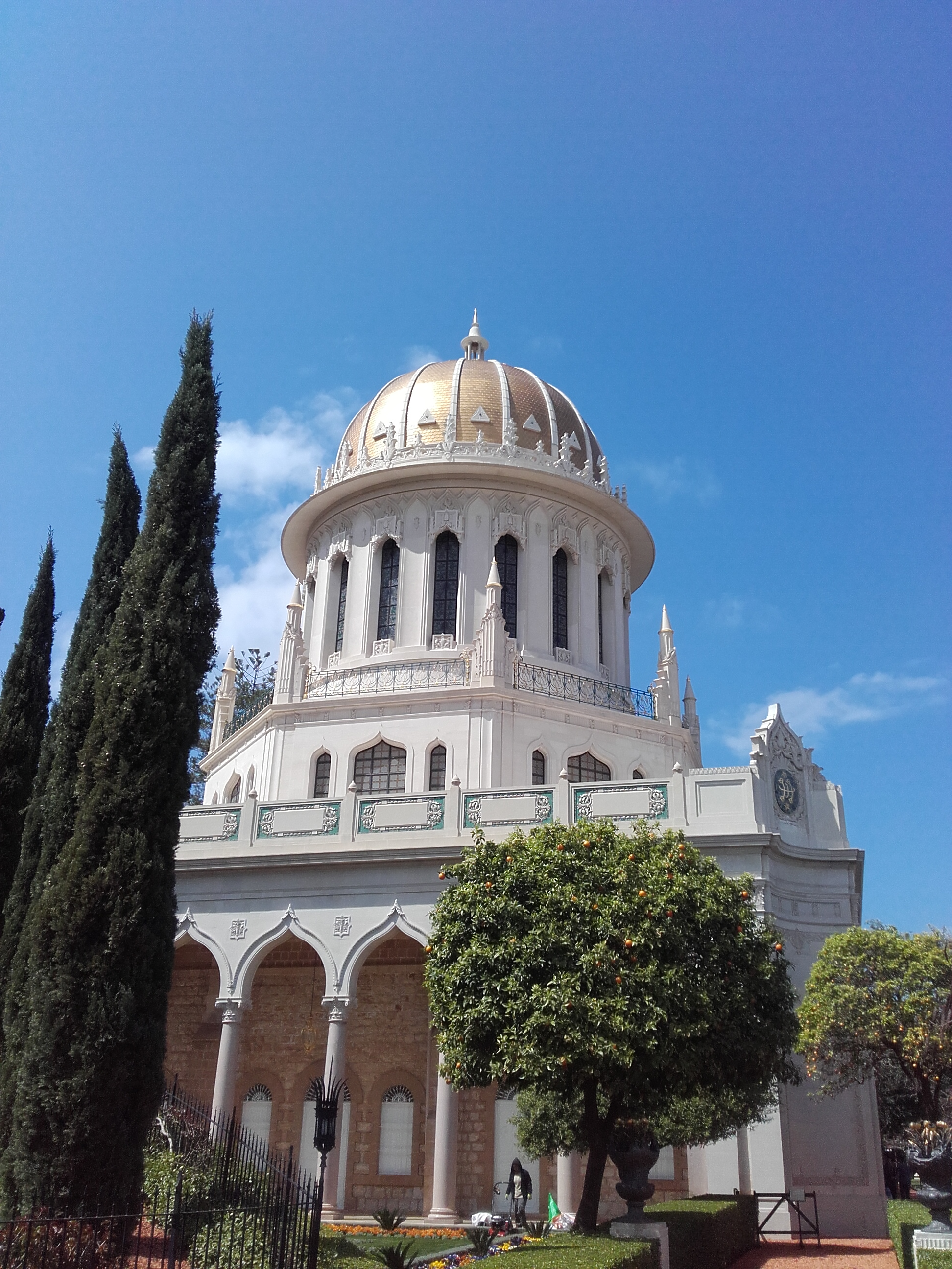 Shrine of the Báb, the Baha'i Gardens and Terraces, and the German Colony seen from the Bay of Haifa.